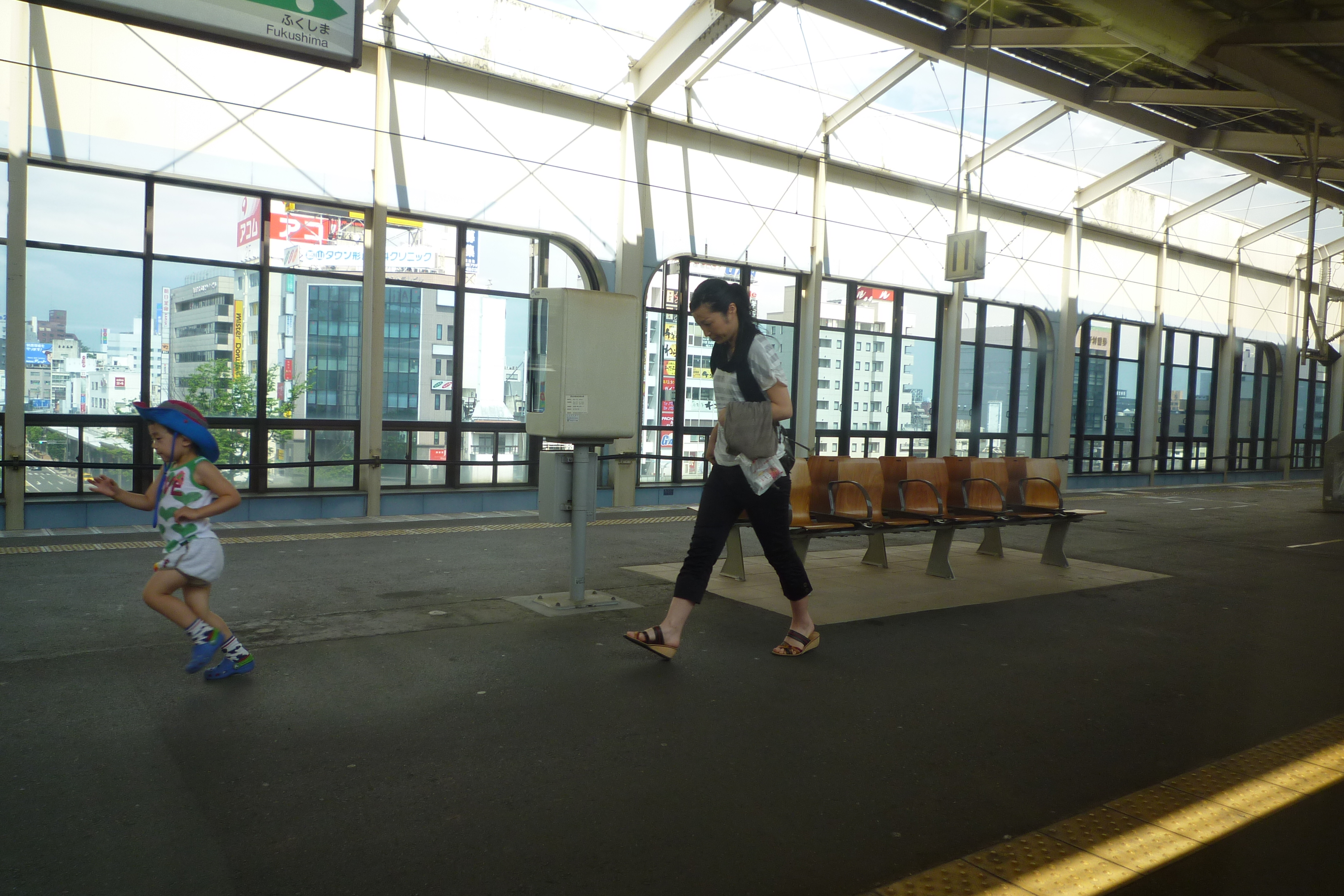 Kōriyama Station as viewed from the Shinkansen line